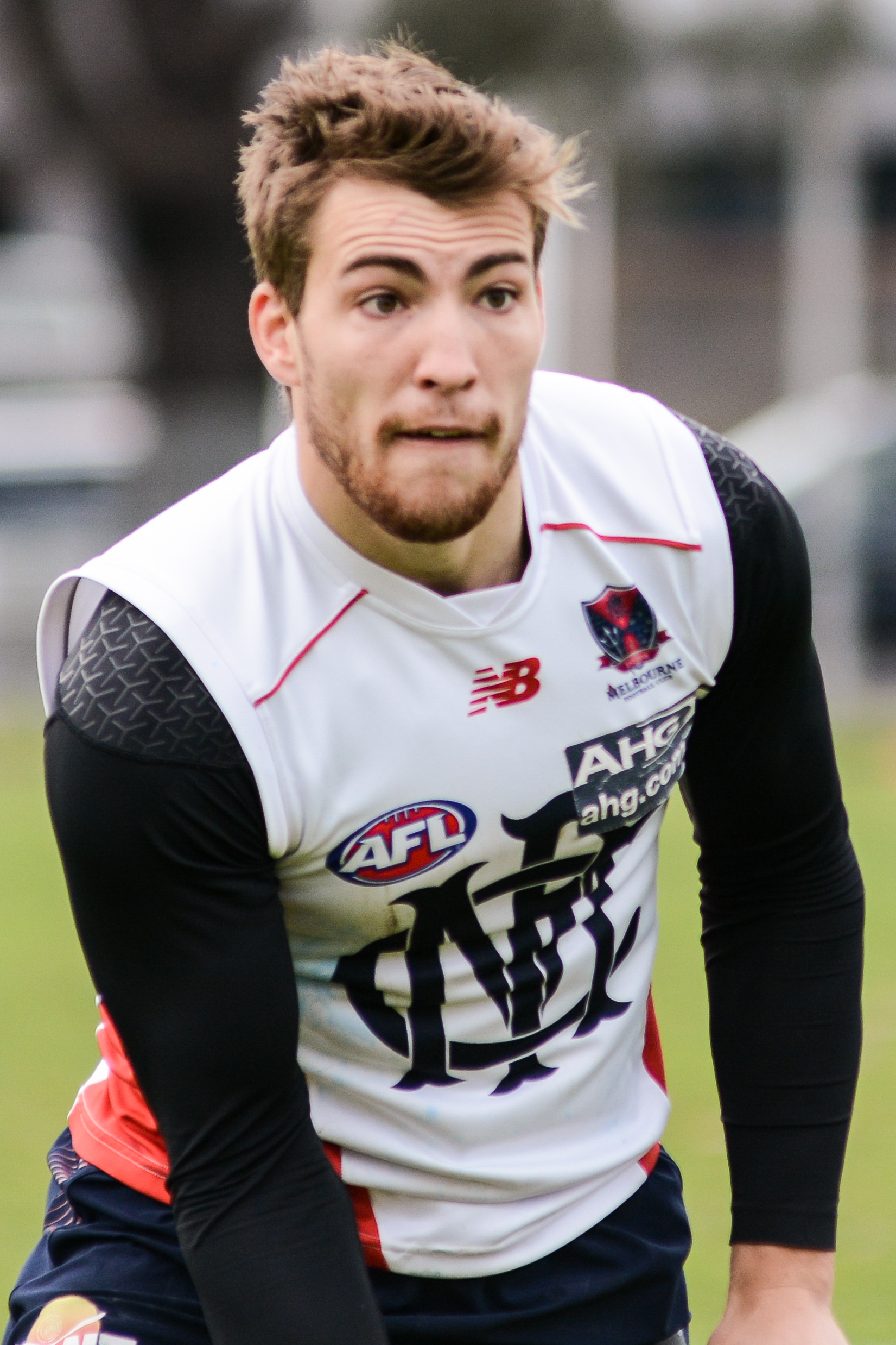 Jack Viney at training during July 2015